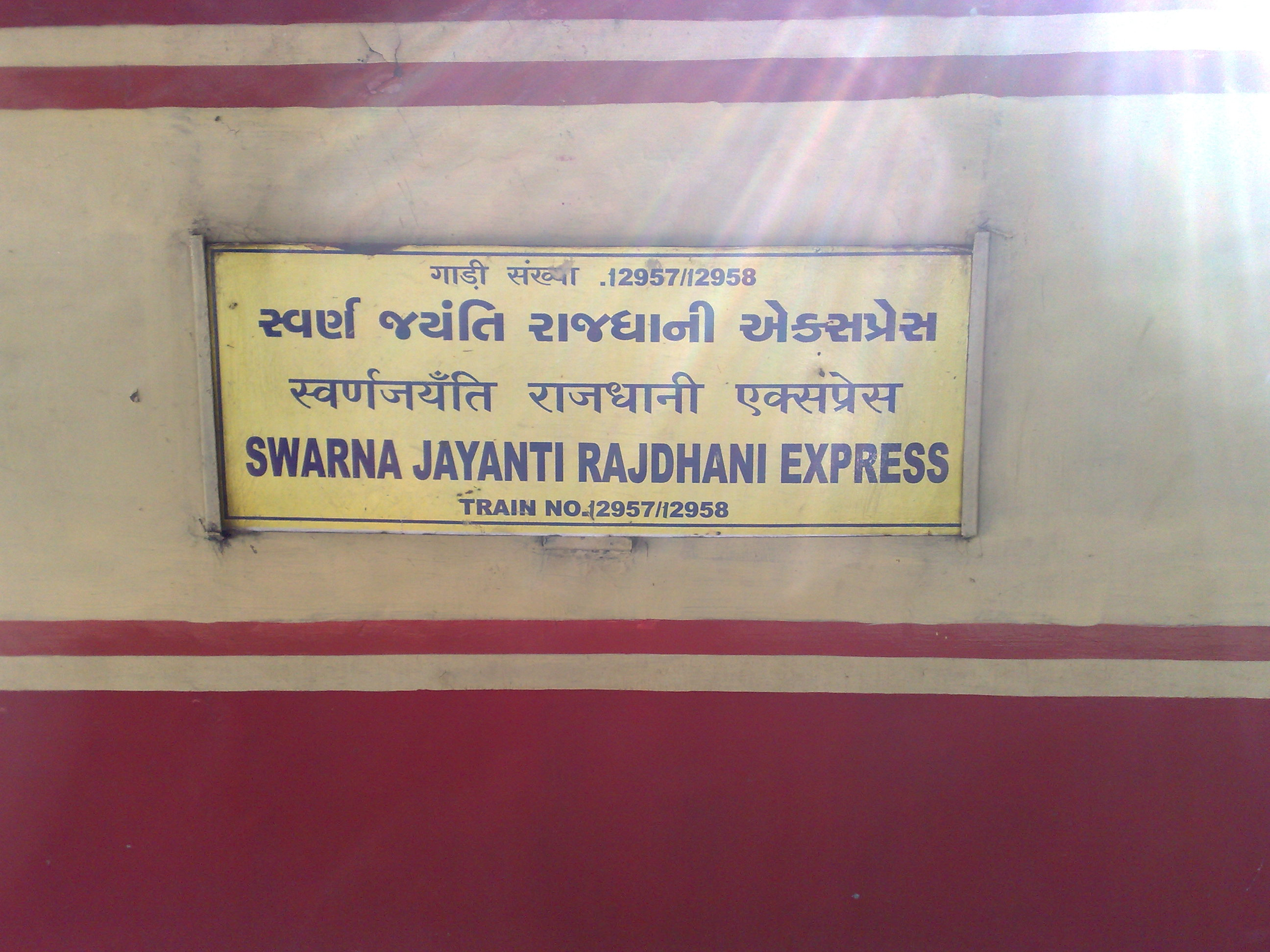 Trainboard - 12957 Ahmedabad Rajdhani Express